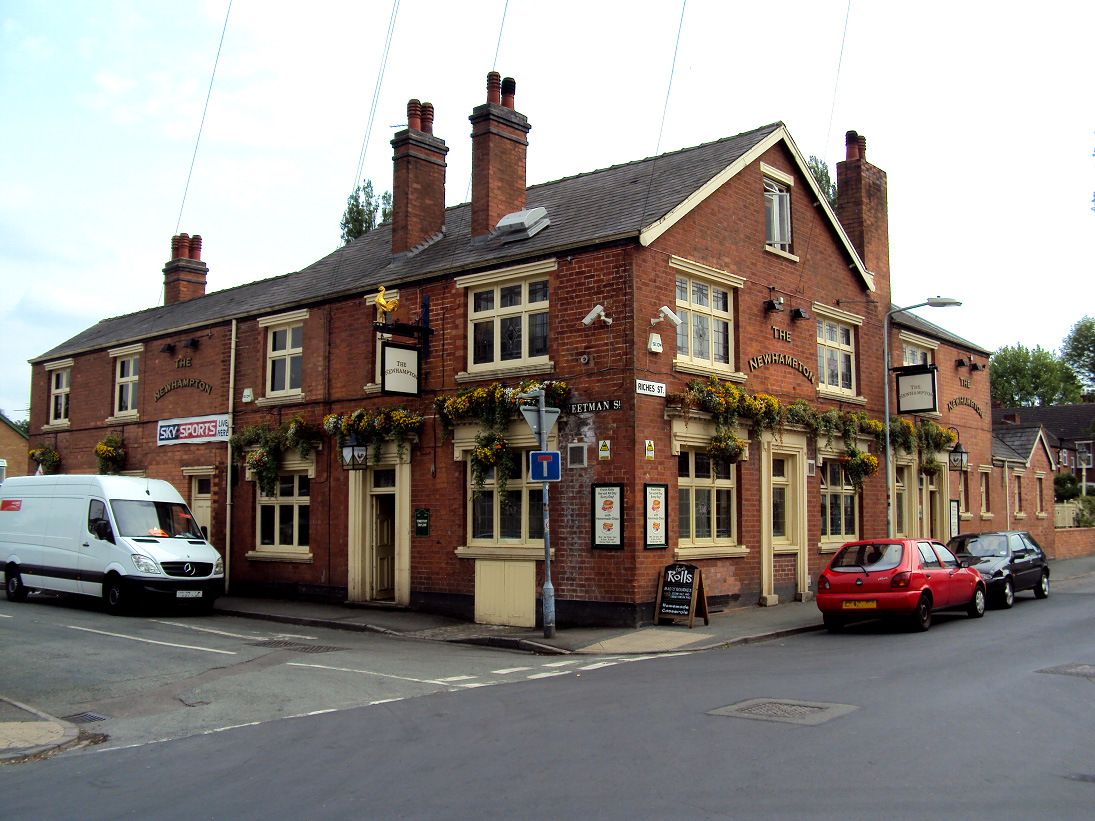 The Newhampton, a Victorian pub specialising in real ale, situated on the corner of Sweetman Street & Riches Street, Whitmore Reans, Wolverhampton.